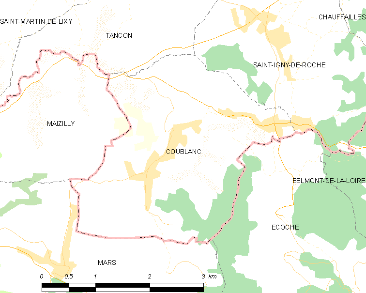 Map of French municipality